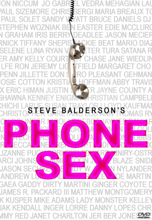 Phone Sex movie poster Note: This seems to be a DVD cover, not a movie poster. -- Infrogmation 23:10, 26 October 2007 (UTC)